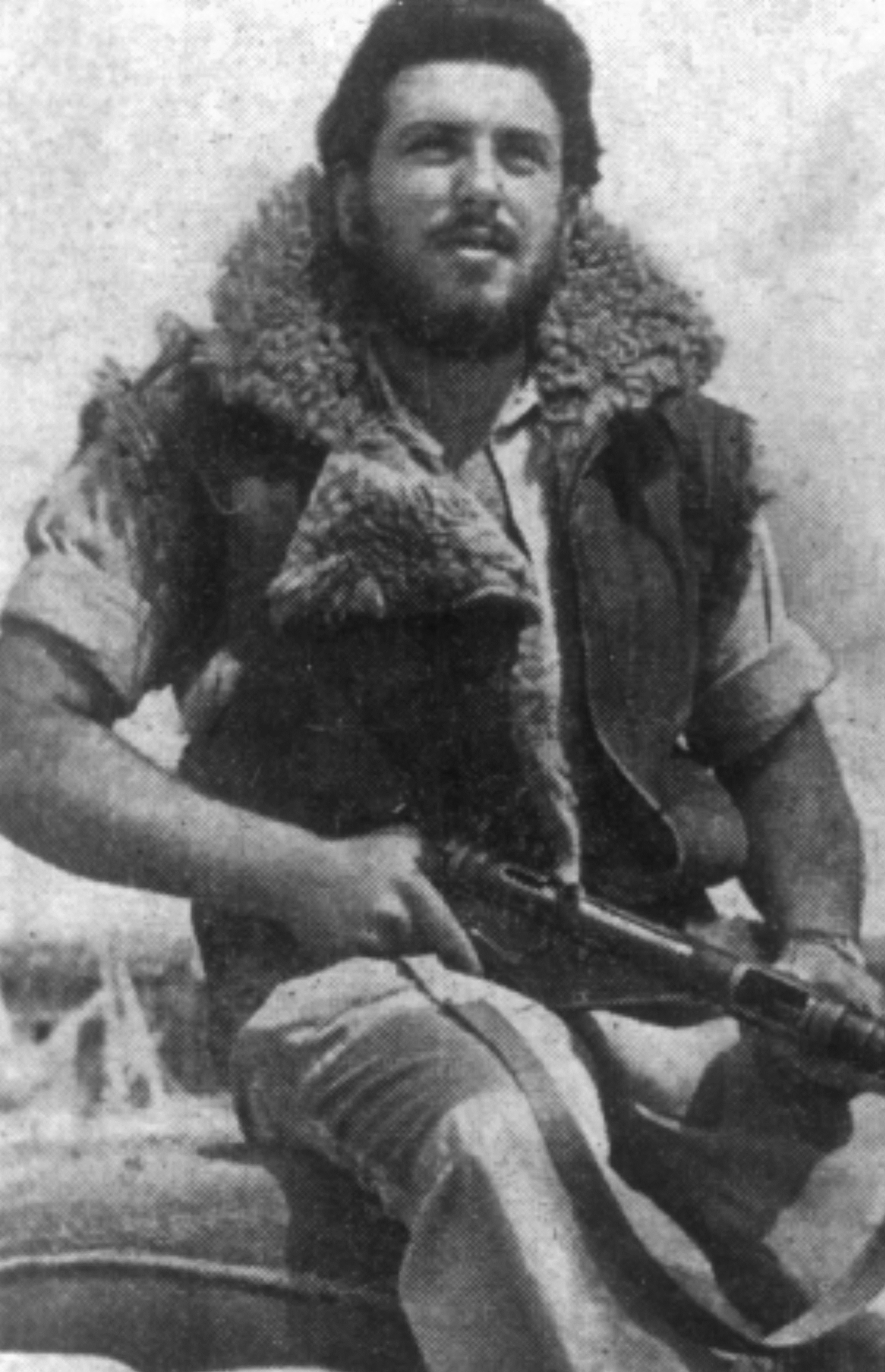 The Palmach, Israel Defense Forces